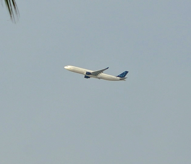 Hifly Airbus A330-322 (CS-TMT) operating for the Royal Australian Air Force flying over Darwin, NT.